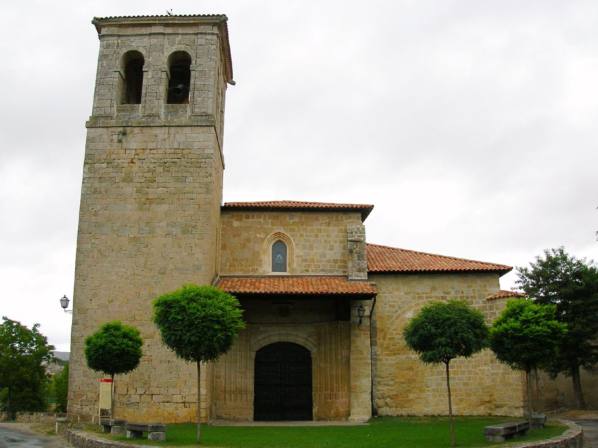 Santuario de Nuestra Señora del Salcinar y del Rosario, en Medina de Pomar (Burgos, Castilla y León, España)